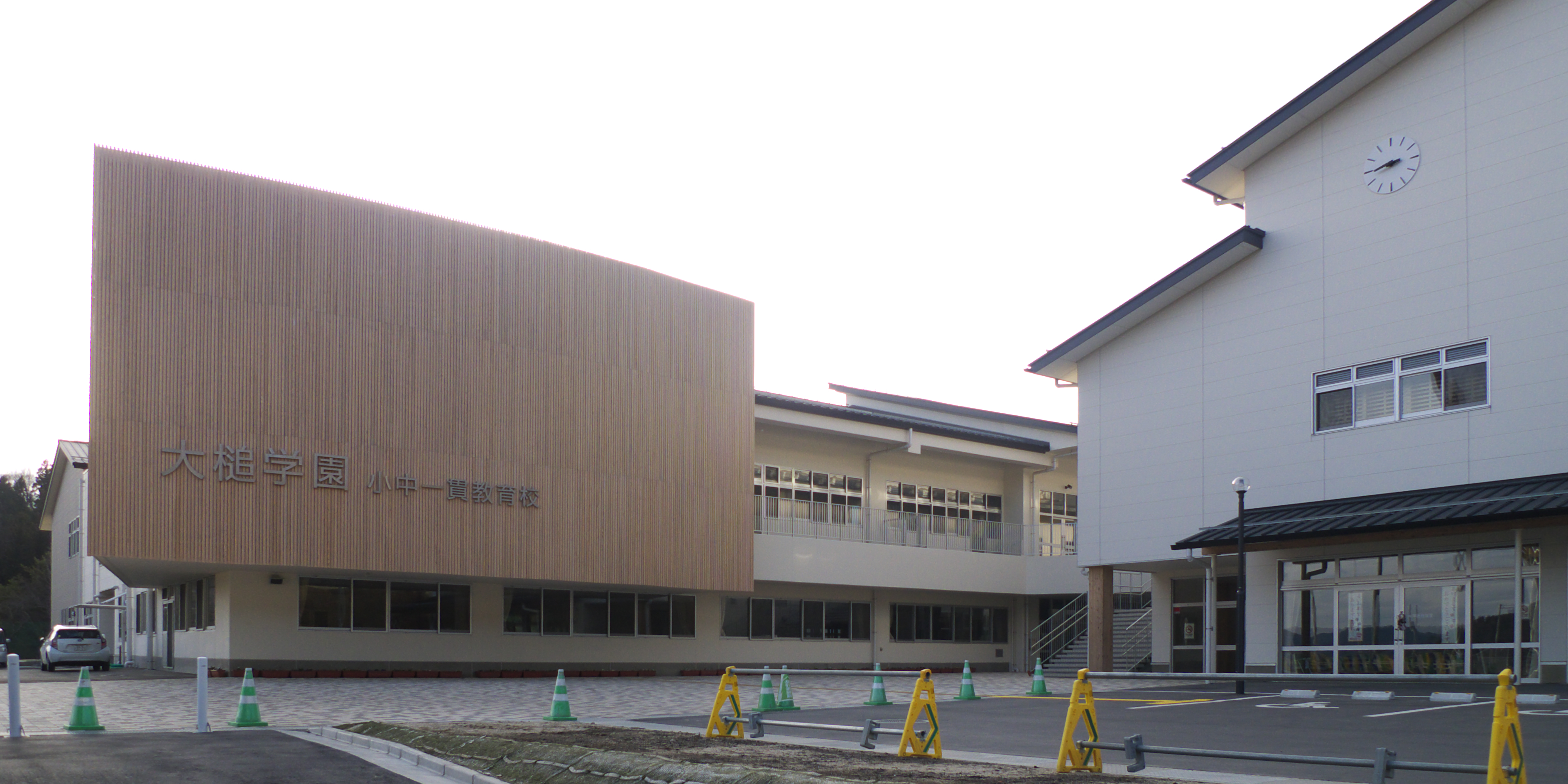 Otsuchi Municipal Otsuchi Gakuen in Otsuchi Town, Iwate Prefecture, Japan